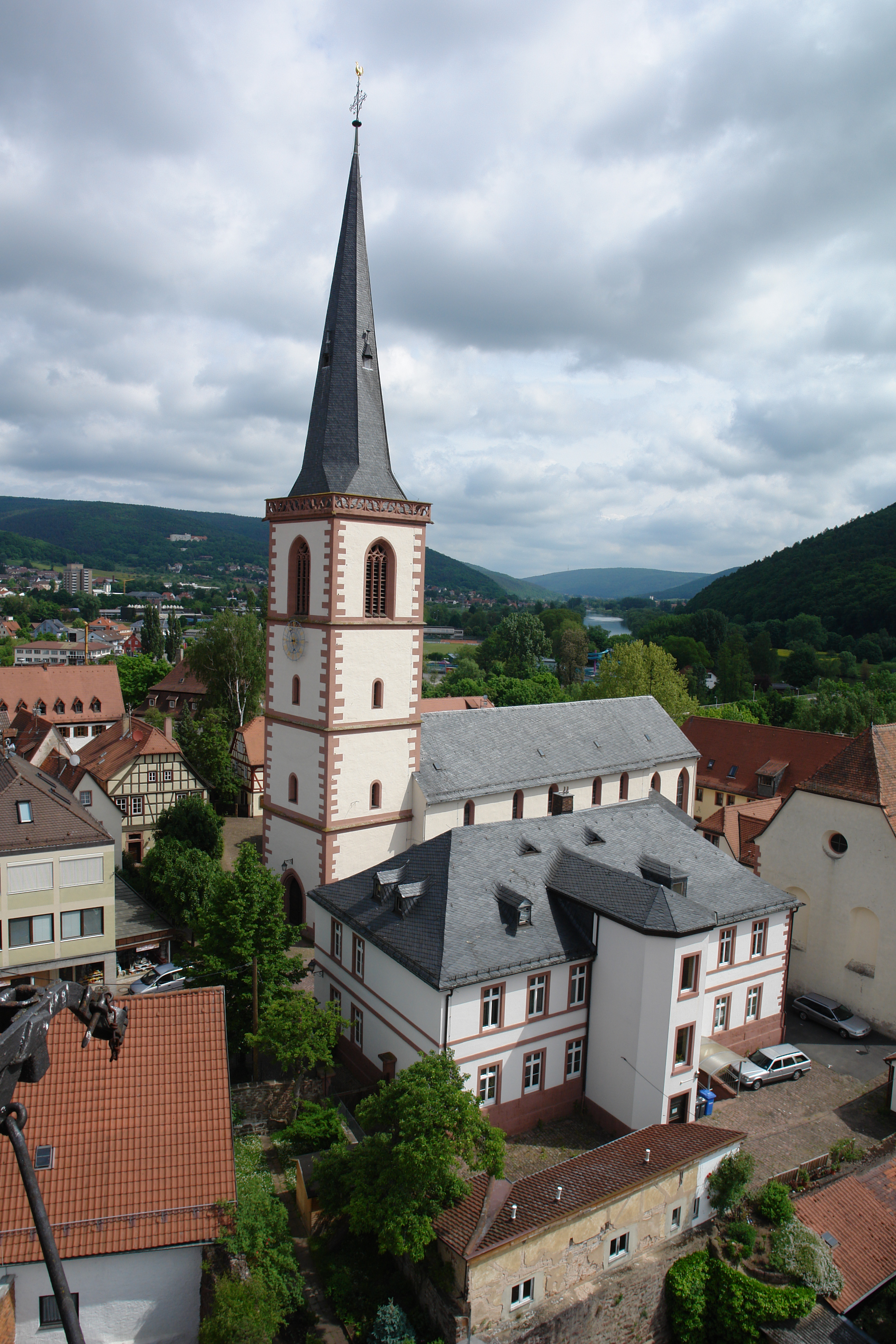 St Michael seen from the Bayersturm